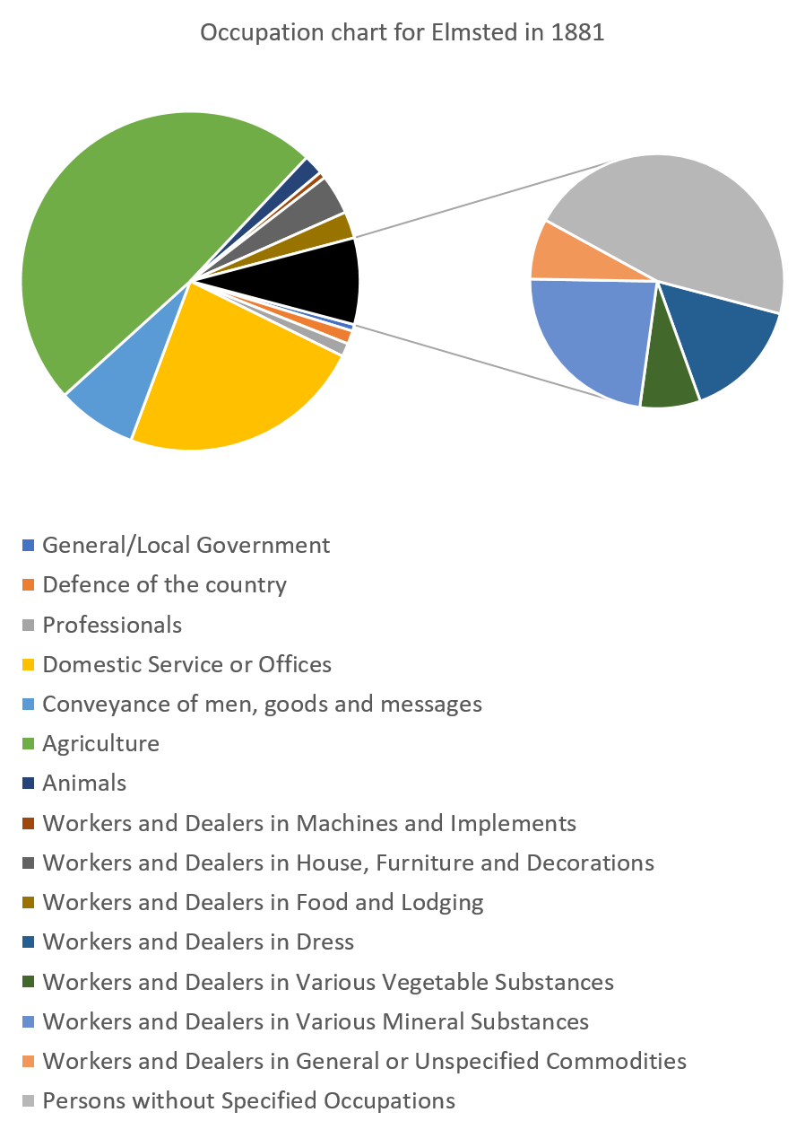 A pie chart displaying the number of workers in different industries in the 1881 census